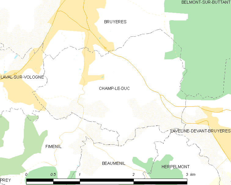 Map of French municipality Champ-le-Duc